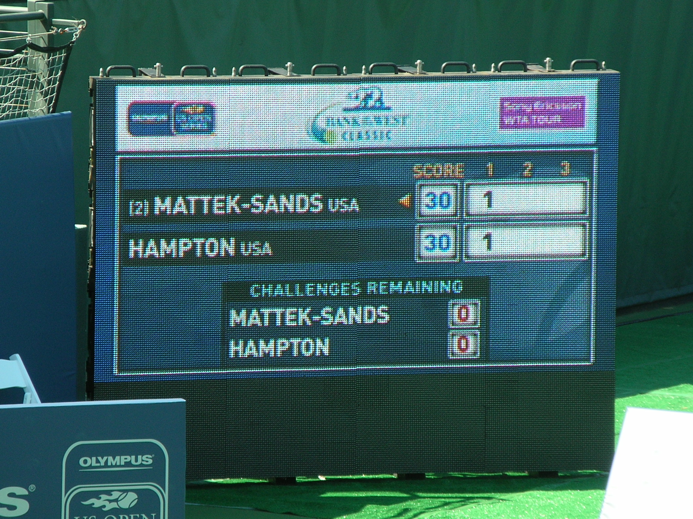 Bethanie Mattek-Sands and Jamie Hampton in the second round of qualifying at the Bank of the West Classic at Stanford. Mattek-Sands won 6-4, 6-3.